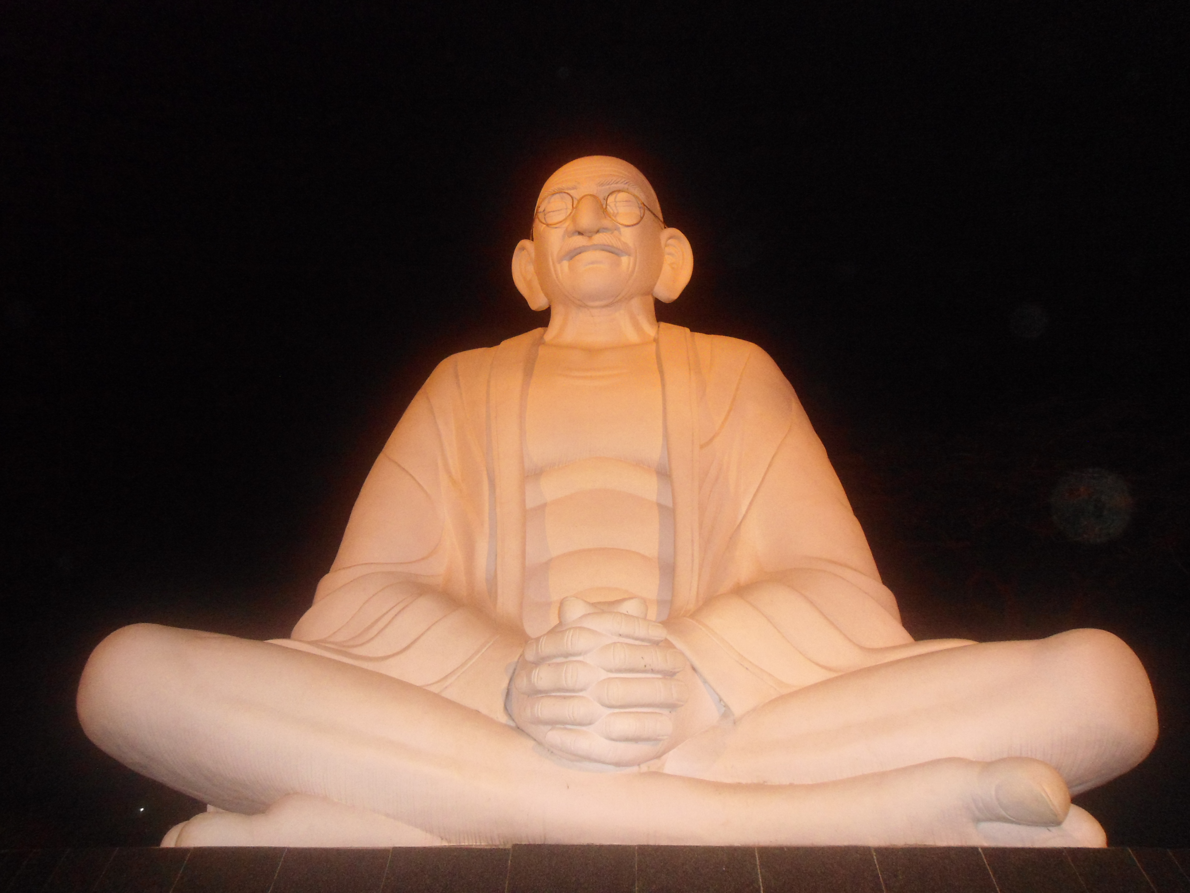 A view of Gandhi statue at Gandhi Nagar park in Kakinada, Andhra Pradesh